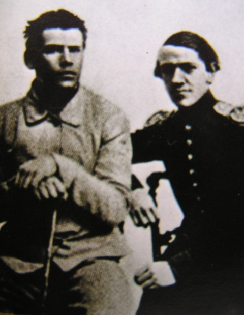 Leo Tolstoy and his brother Nikolai